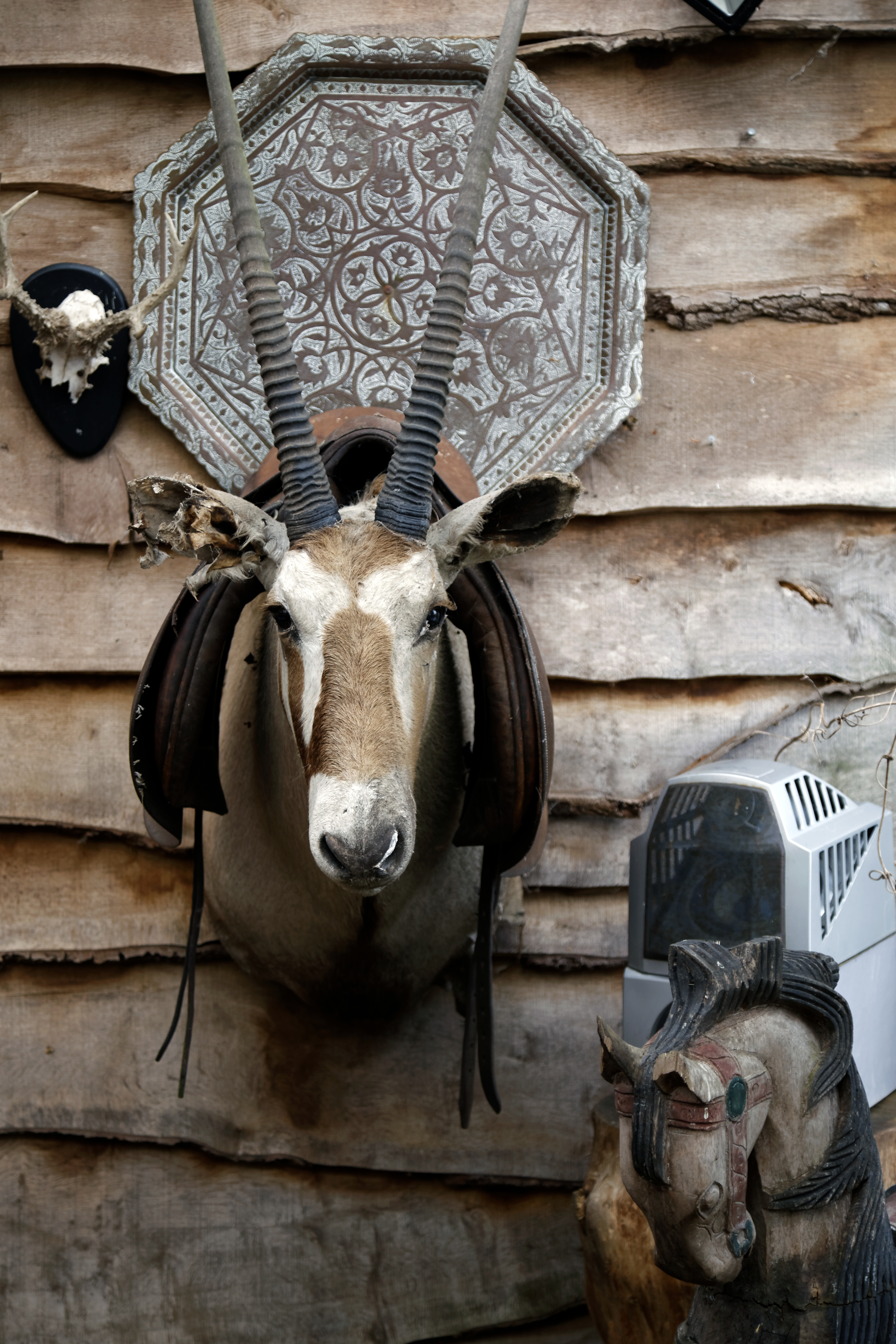 Taxidermy wall mounted Gemsbok Oryx gazella head at The Wheatsheaf, at Ashfold Crossways, in Lower Beeding, West Sussex, England.Camera: Canon EOS 6D with Canon EF 24-105mm F4L IS USM lens.Software: RAW file lens-corrected, optimized and converted with DxO OpticsPro 11 Elite, and further optimized with Adobe Photoshop CS2.